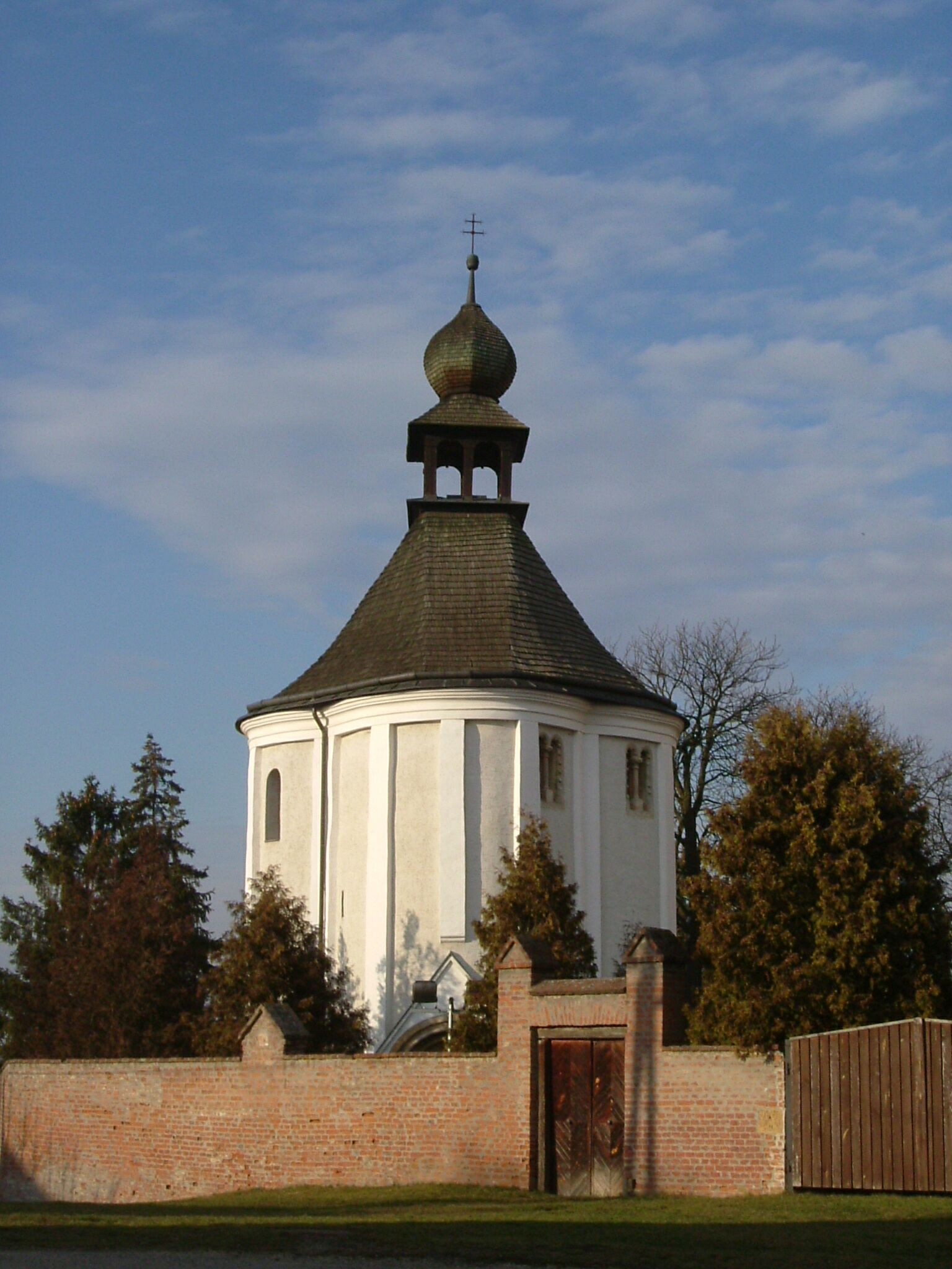 Ják-Hungary. St. James Chapel. Author: Peter Kaboldy